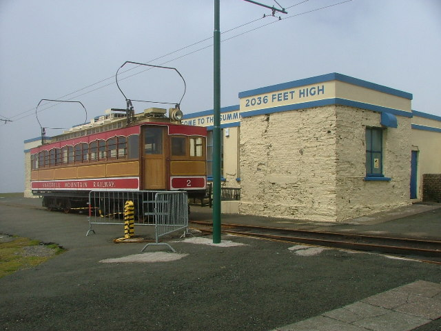 Snaefell Summit Station. 2036 Feet High